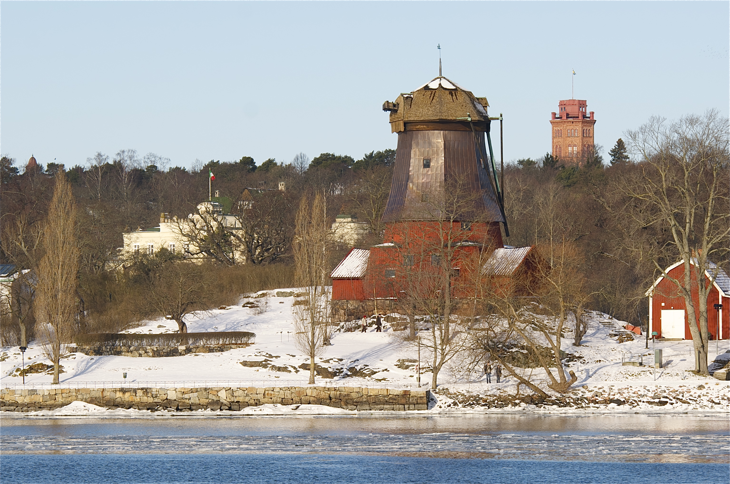 Oljekvarnen (linseed mill) built in the 1780s, Waldemarsudde (Stockholm).